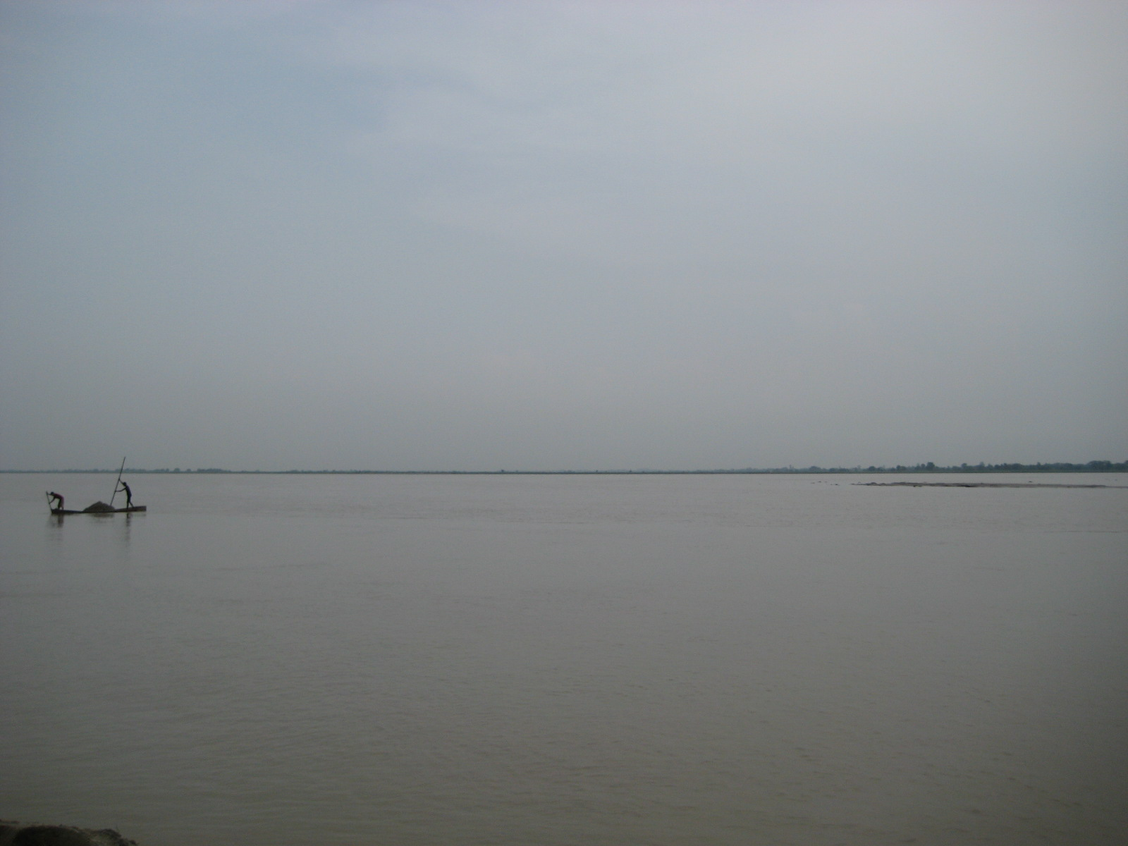 Ghaghara river in spate during the monsoon season. Faizabad, India